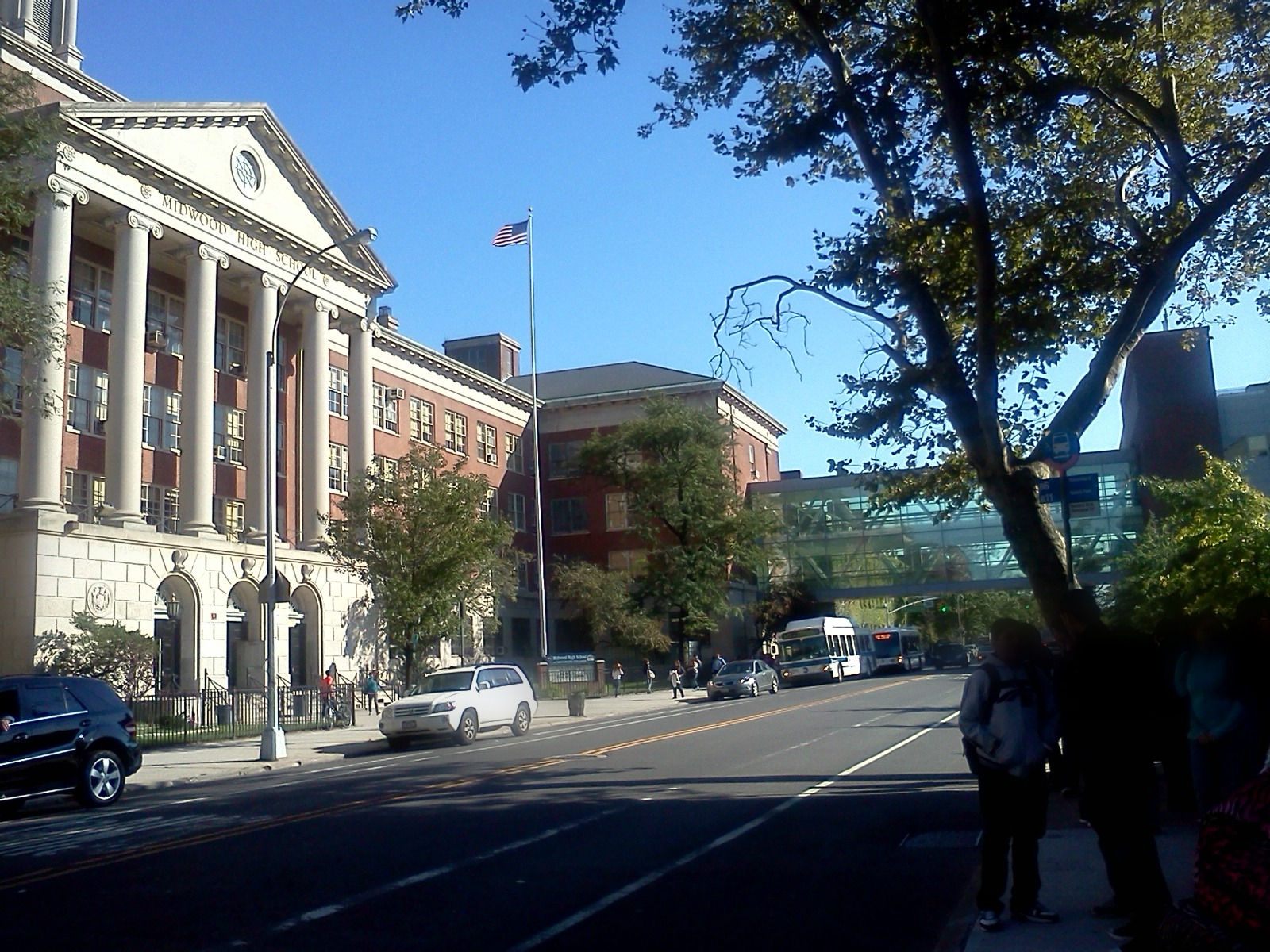 Midwood HS on Bedford Avenue.